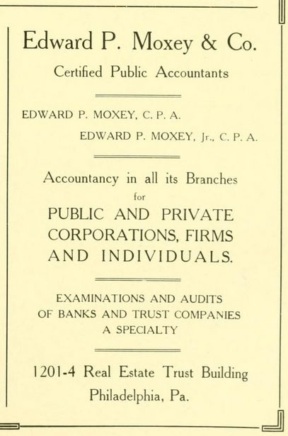 Business advertisement 1912